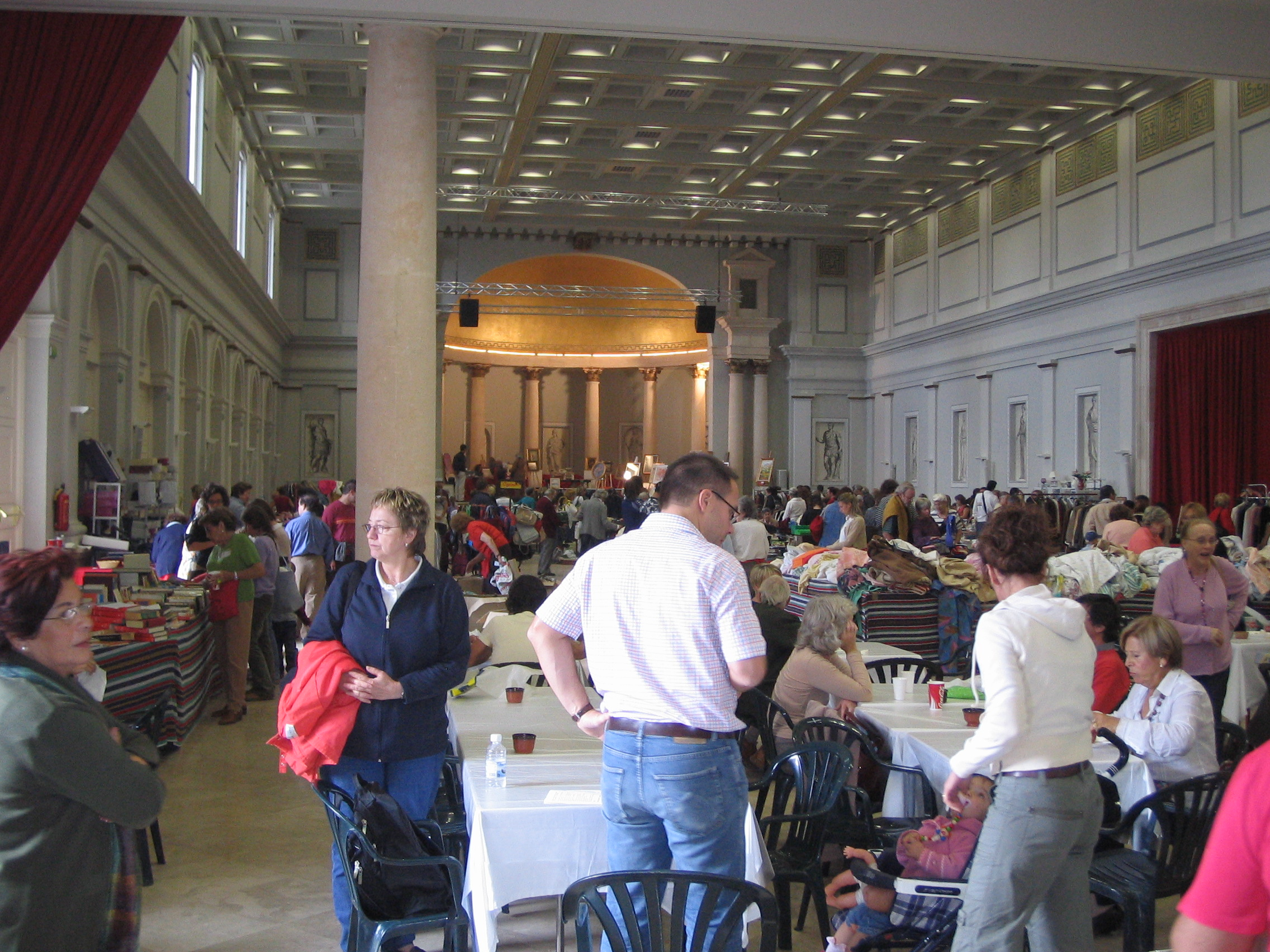 carboot sale for the homeless in Mallorca, Spain.